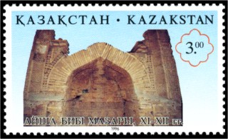 Stamp of Kazakhstan